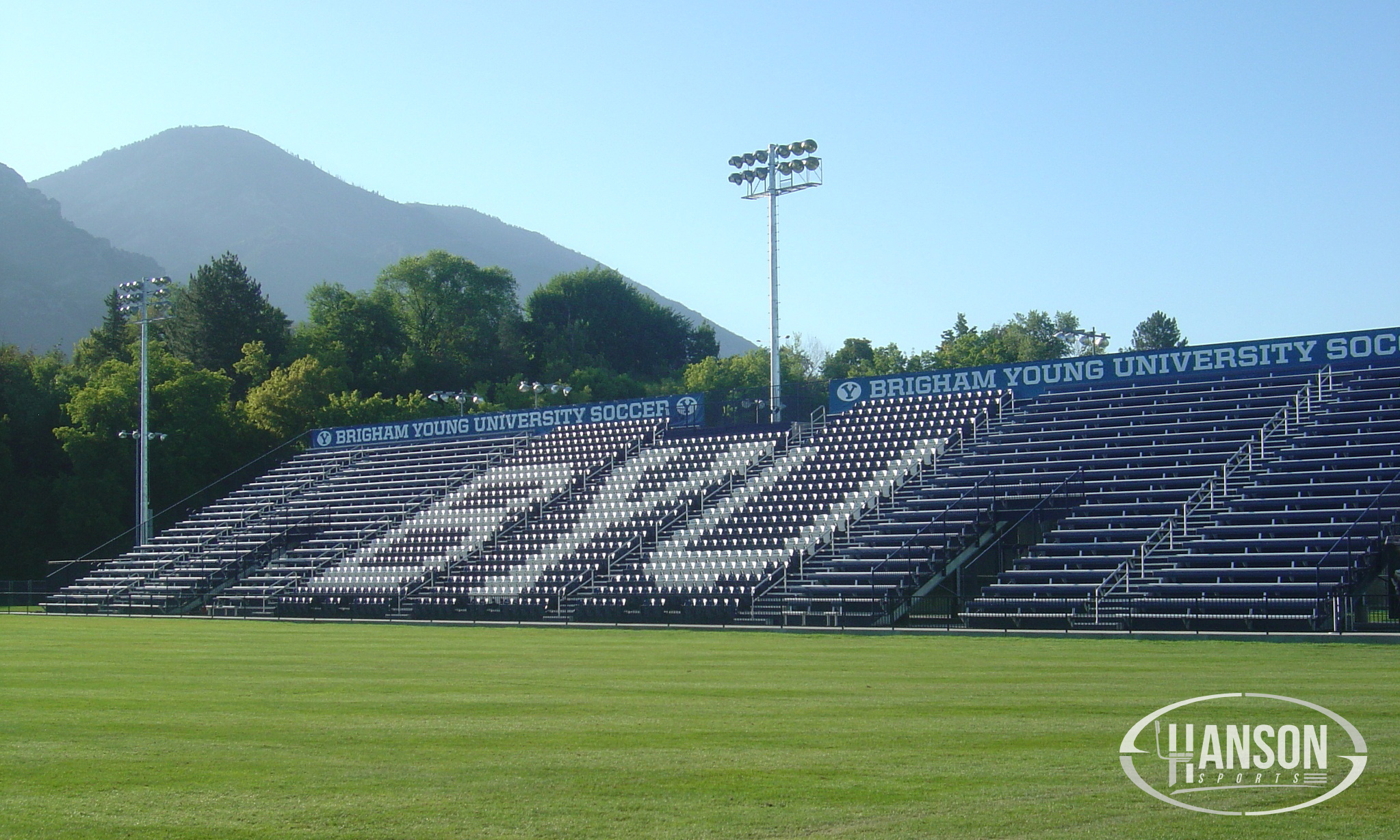 Non-elevated I-beam, two vomitories, anodized seat boards, custom BYU blue risers and backrests, vertical picket railing with logos, welded deck, slip resistant decking and VIP Section with 816 flip up chairs that spell B-Y-U.